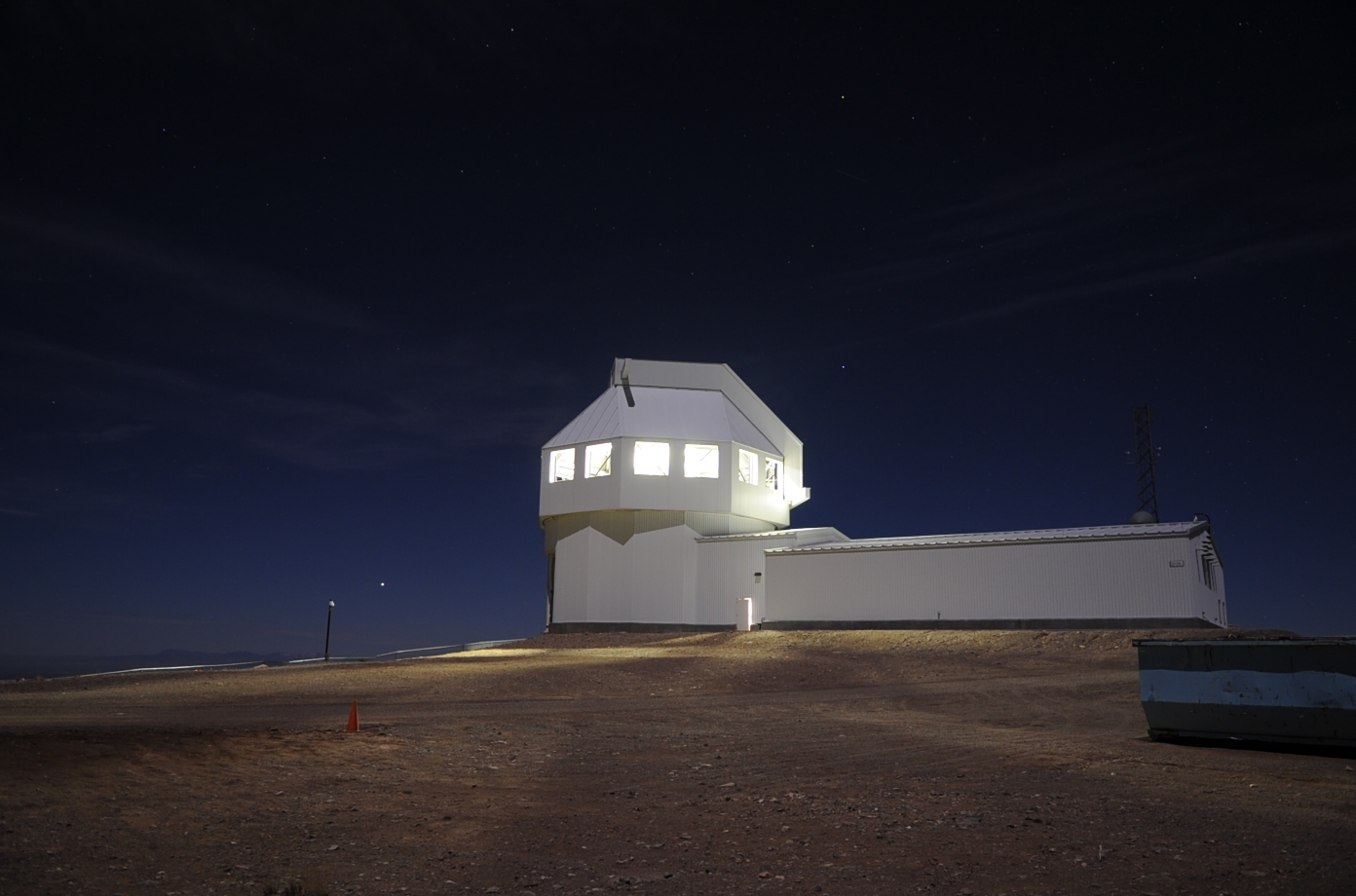 Space Surveillance Telescope Dome